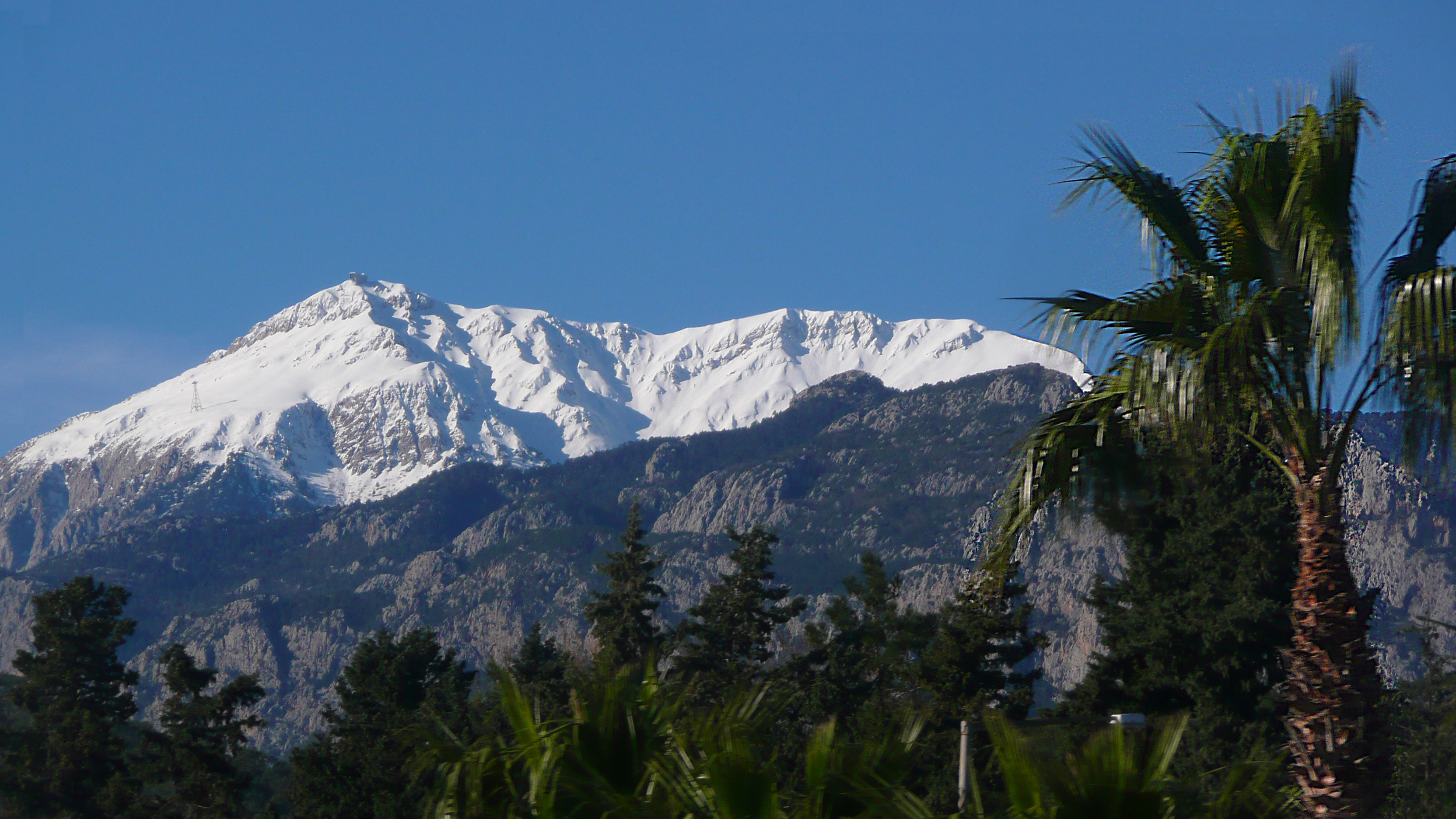 Mountain Tahtali Dagi near Kemer / Antalya (Turkey)